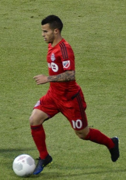 Sebastian Giovinco playing for Toronto FC in 2015